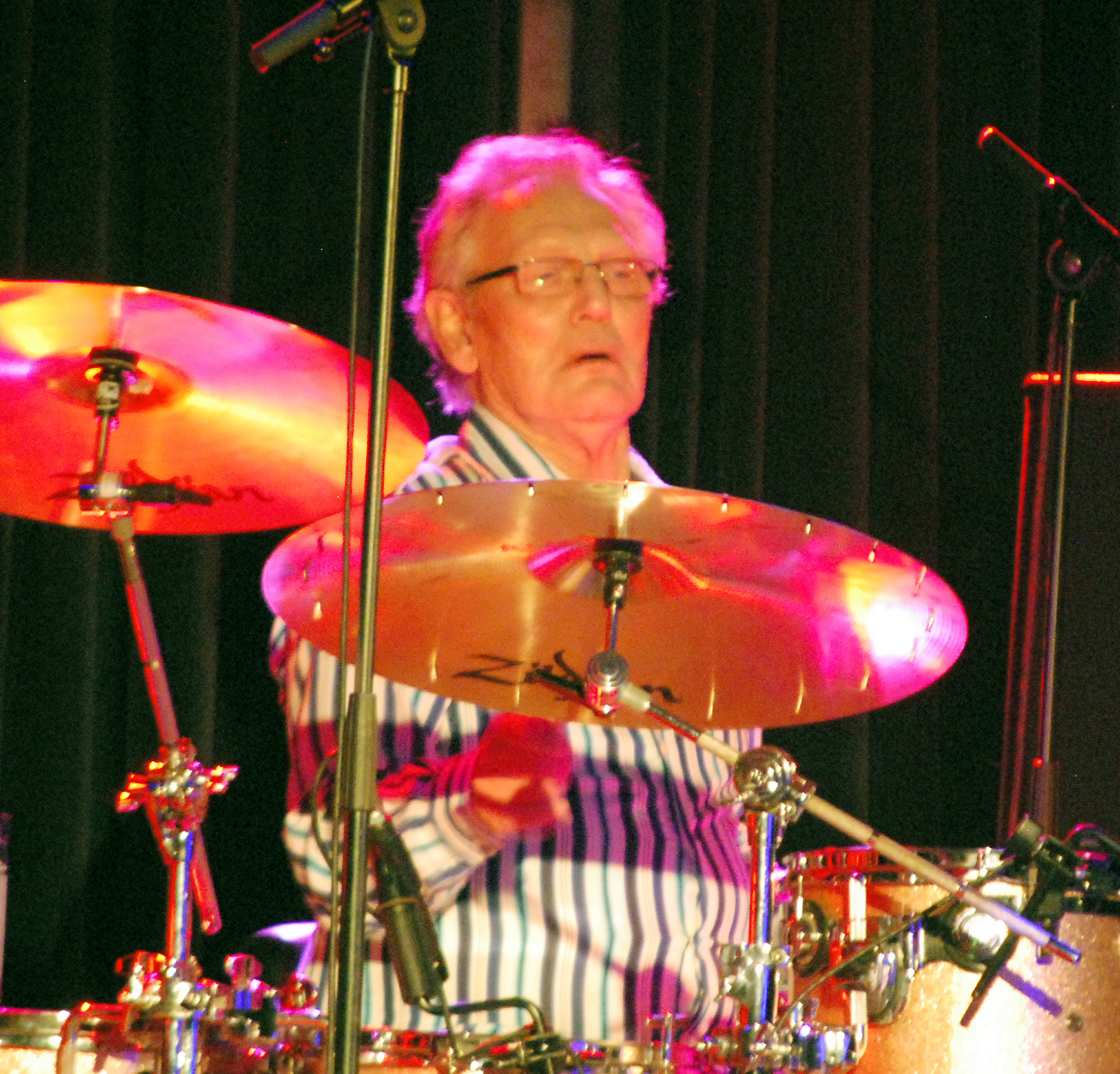 Ginger Baker, Treibhaus Innsbruck 2011 (Jonas Hellborg (b) Ginger Baker (dr) Regi Wooten (g) Dodoo Abass (perc) )